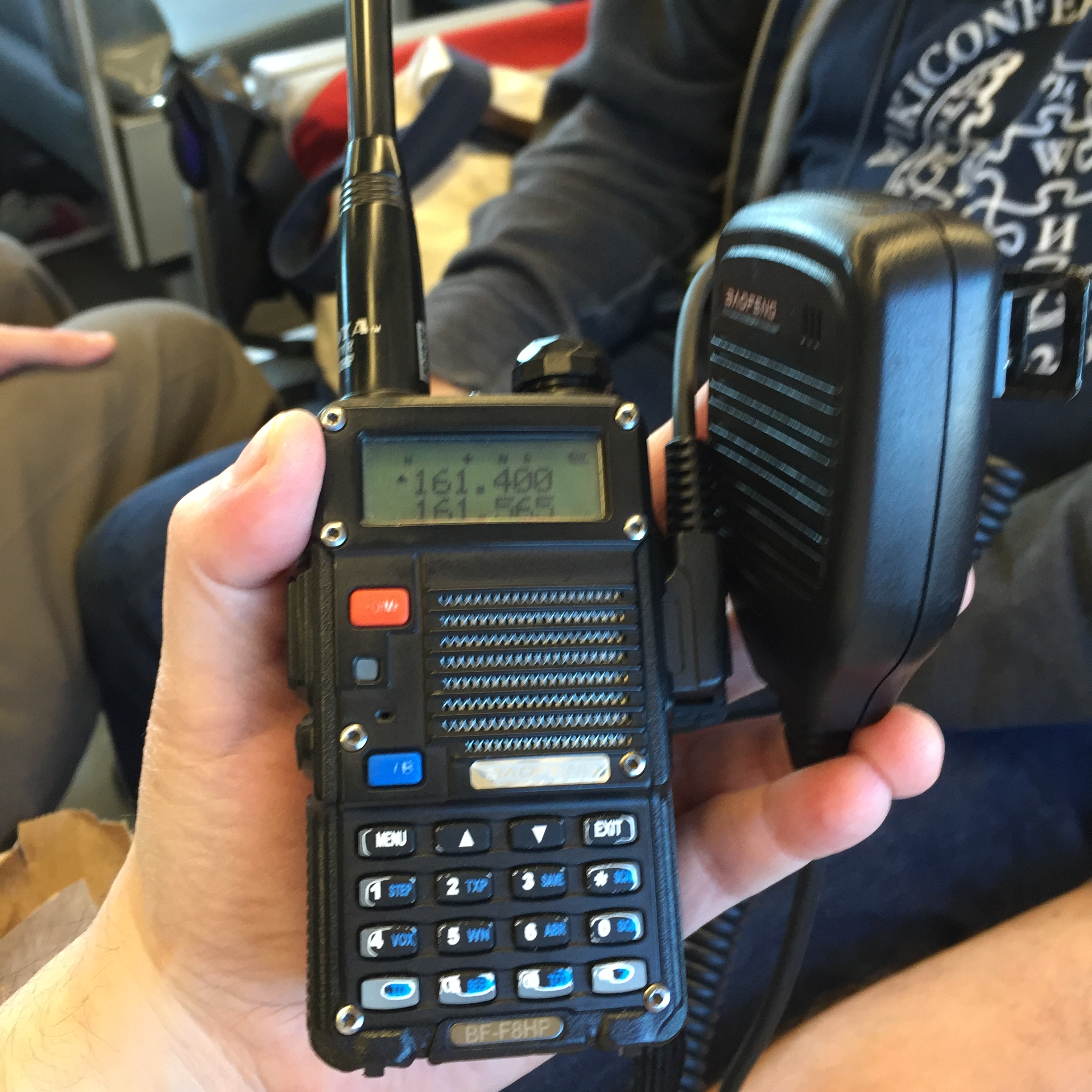 Aphra Behn Society Editathon at the Grand Summit Hotel on Wednesday, November 4, 2015 #ABOedit2015 Pre-Conference Event at the Grand Summit Hotel -- Women in the arts 1640-1830; ABO: Interactive Journal for Women in the Arts, 1640-1830; Wikipedia feminist activism